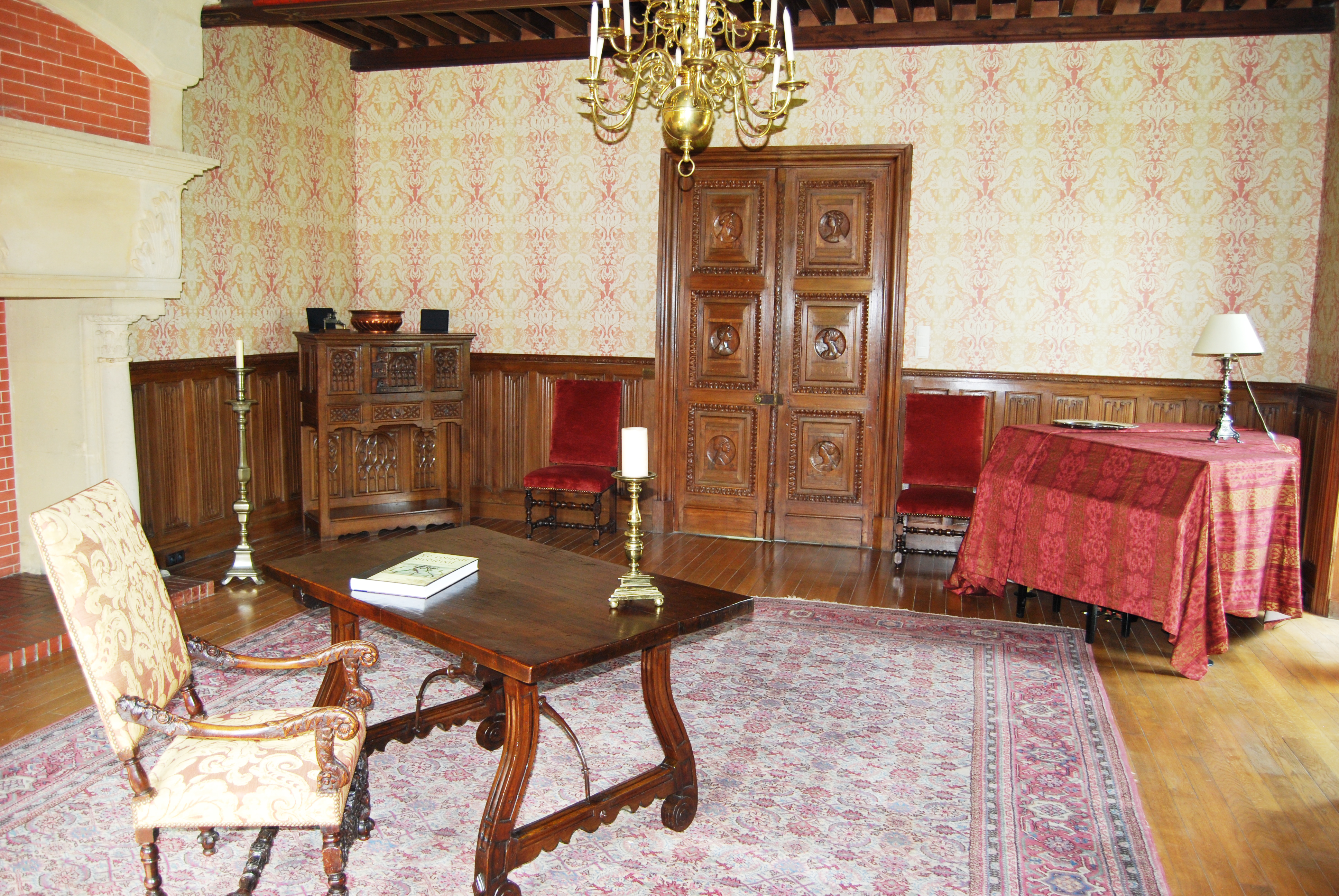 Saloon from ground floor of Landreville Castle, renovated in 2011.